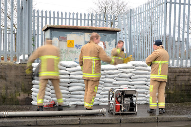 Transformer and sandbags, Sydenham, Belfast